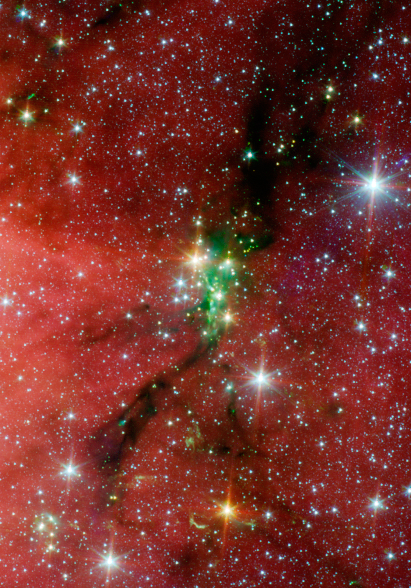 Human families may be bonded by blood, but stellar families are united by gravity. A family of stars, or star cluster, can contain hundreds or thousands of members. In this image, NASA's Spitzer Space Telescope spots the Serpens South star cluster, which consists of a relatively dense group of 50 young stars -- 35 of which are protostars, or stellar infants, that are just beginning to form. Stellar members of Serpens South star cluster can be seen as the green, yellow, and orange tinted specks sitting atop the black dust lane running down the center of the image. Like raindrops, stars form when thick patches of cosmic clouds condense. Tints of green in the image represent hot hydrogen gas excited when high-speed jets of gas ejected by infant stars collide with the cool gas in the surrounding cloud. Wisps of red in the background are organic molecules called polycyclic aromatic hydrocarbons (PAHs), which are being excited by stellar radiation from a neighboring star-forming region located to the east of this image, called W40. On Earth PAHs are found on charred barbeque grills and in the sooty automobile exhaust. This Spitzer picture is composed of three images taken with the telescope's Infrared Array Camera (IRAC) at 3.6 (blue), 4.5 (green), and 5.8 (red) microns. The cluster was observed by a team of scientist led by Dr. Robert Gutermuth, of the Harvard-Smithsonian Center for Astrophysics. The observation was part of a larger project called the Gould's Belt Legacy Survey.